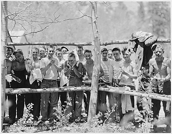 Civilian Conservation Corps "wash room" at Camp Rock Creek, on Rock Creek, Eastern Sierra, in California